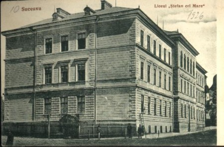 Ştefan cel Mare National College in Suceava – photo from the interwar period (1926).